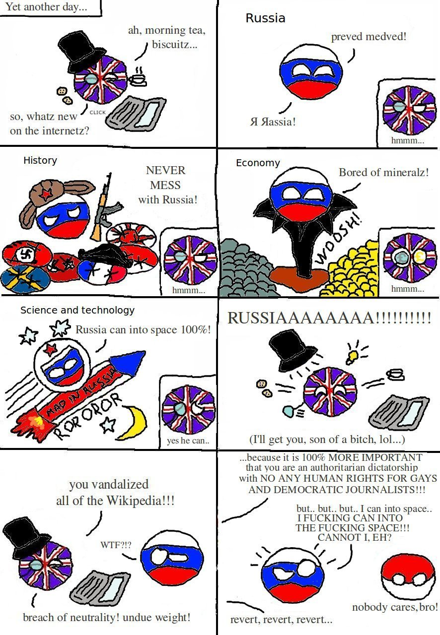 A Polandball cartoon. Russiaball cannot into Wikipedia, but Russiaball can into space.